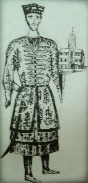 Ashot the Kukhi I of Tao